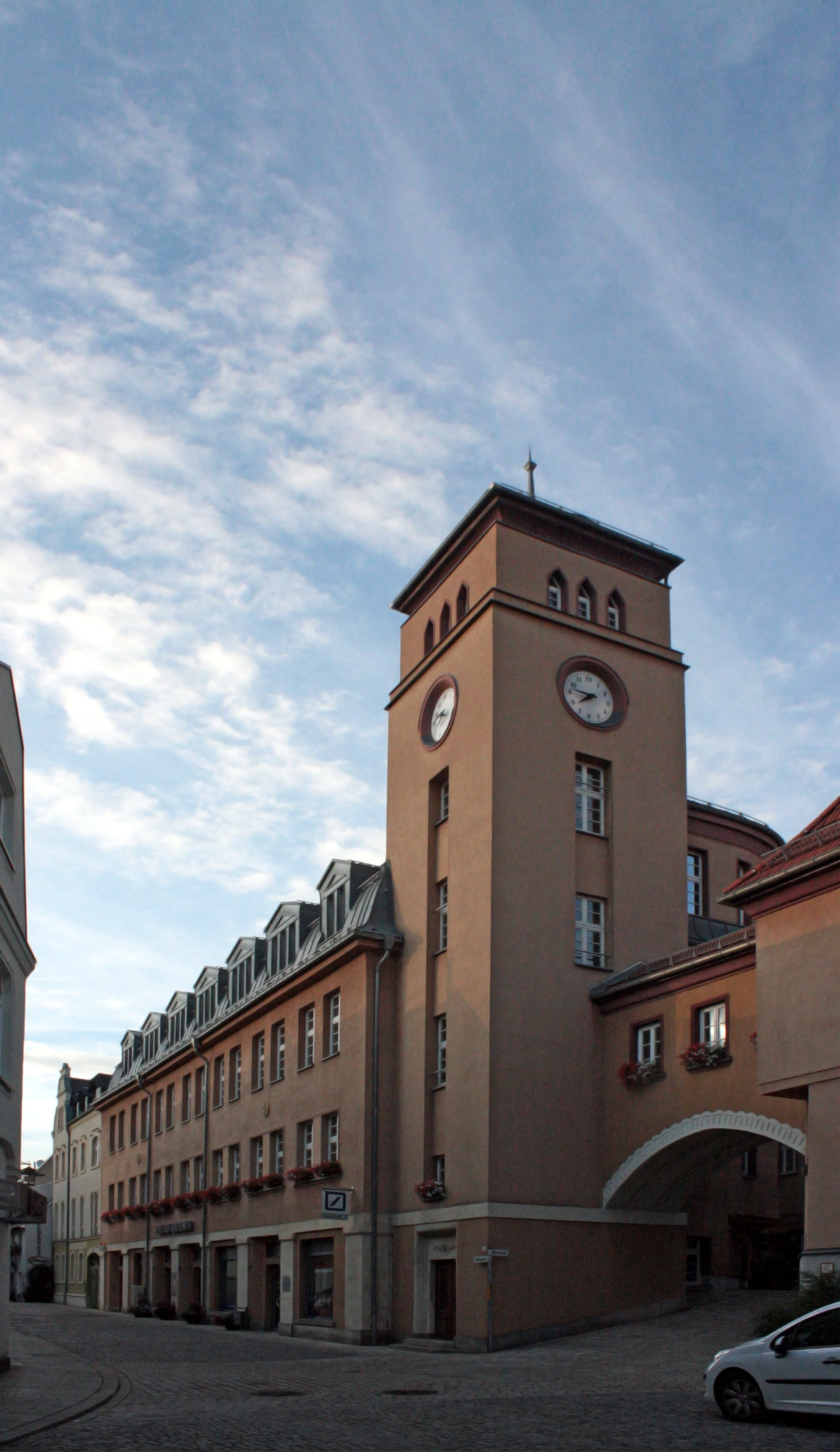 New town hall in Lichtenstein/Saxony near Chemnitz